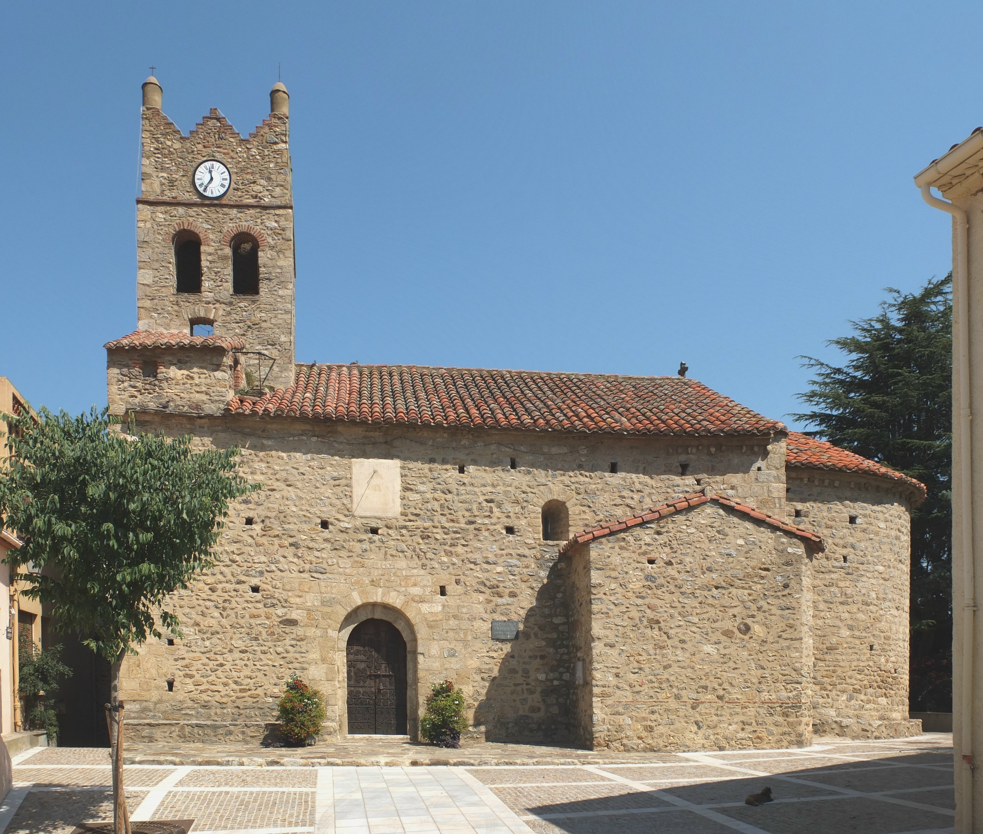 Église Saint-Étienne de Villelongue-dels-Monts, Pyrénées-Orientales, France (view South). Ministère de la Culture (France): Base Mémoire: AP066_20096600604